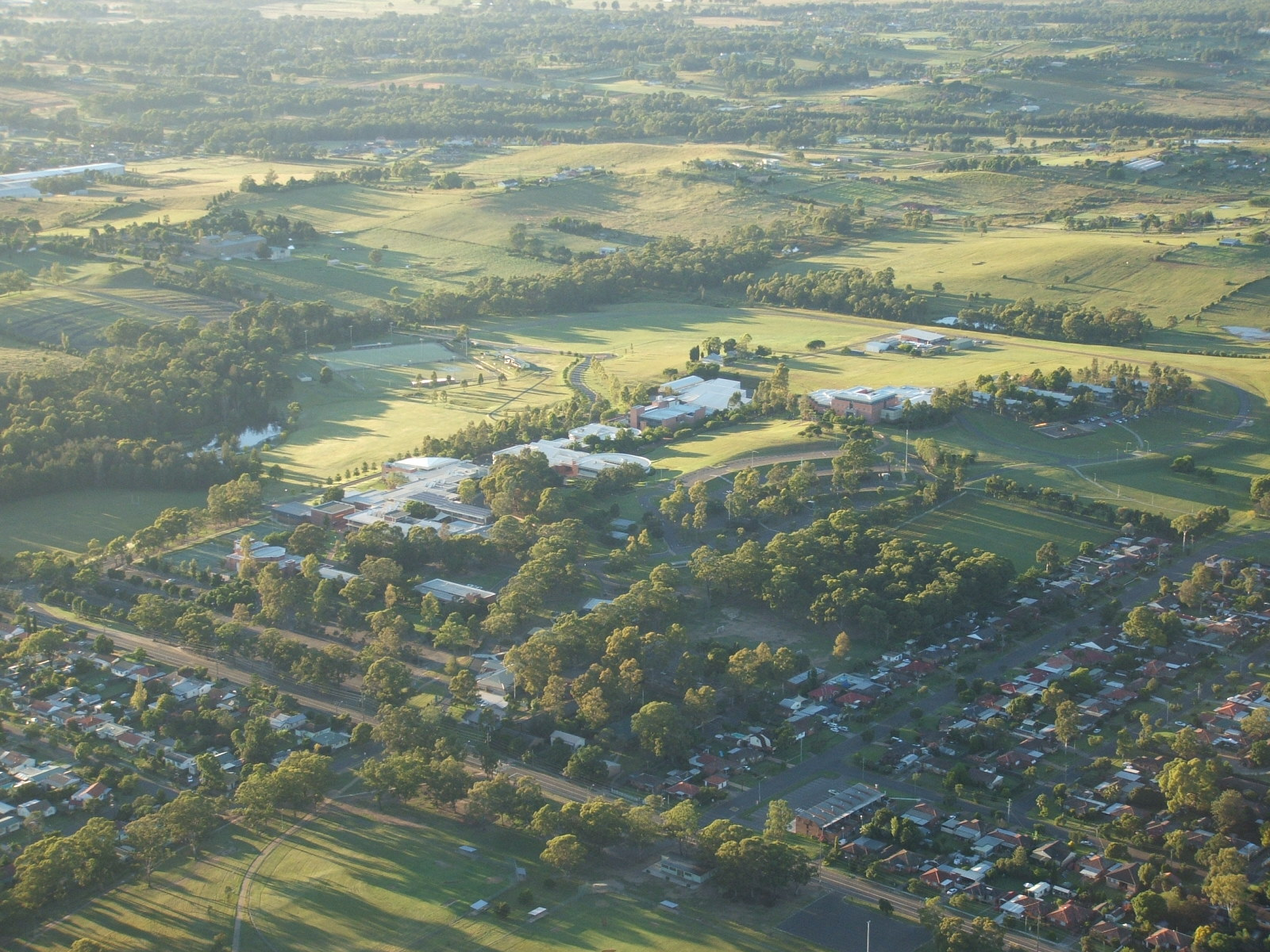 Aerial photograph of the University of Western Sydney Penrith Campus, at Kingswood